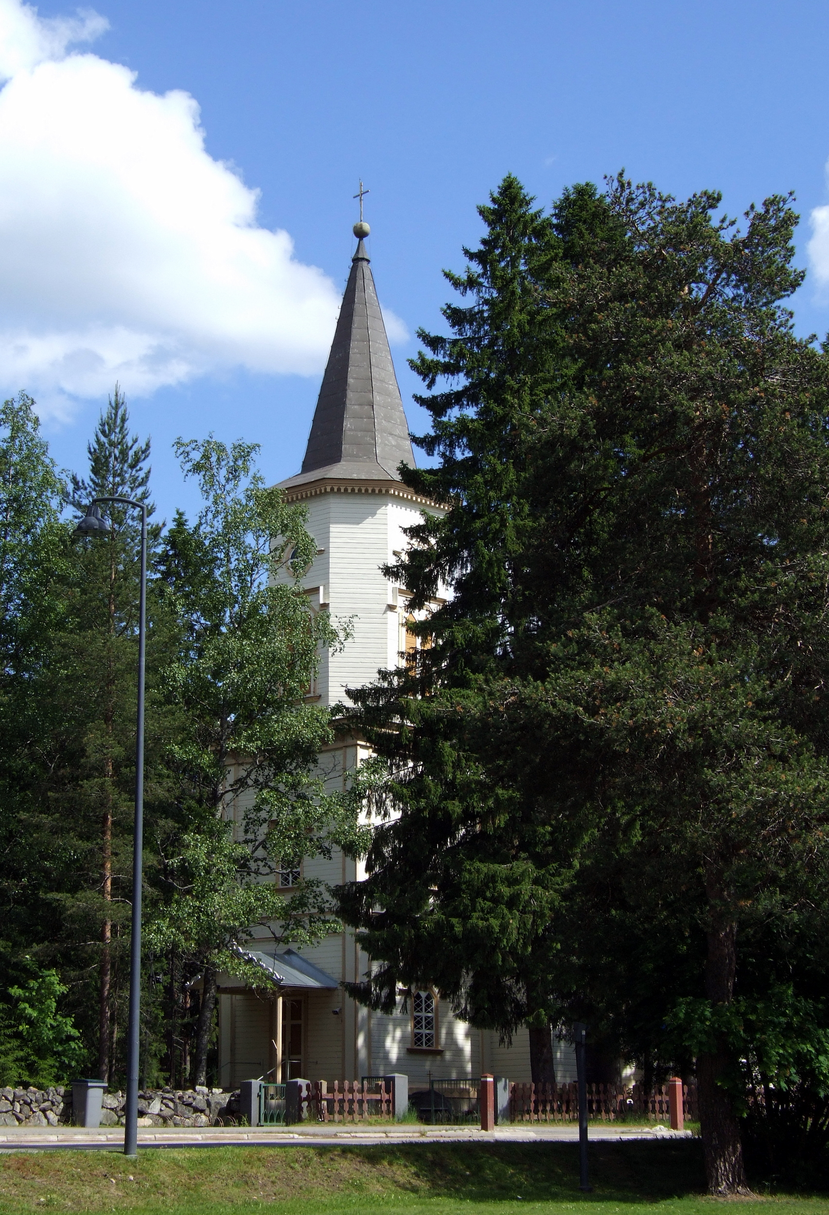 Kestilä church in Northern Ostrobothnia in Finland. Completed in 1855. Designed by architect Ernst Lohrmann.